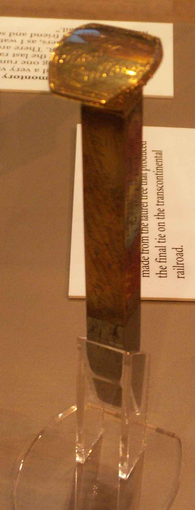 Golden Spike gift from Arizona on loan at Union Pacific Museum in Council Bluffs, Iowa. Spike is now owned by the Museum of the City of New York. Photo by poster in December 2006.